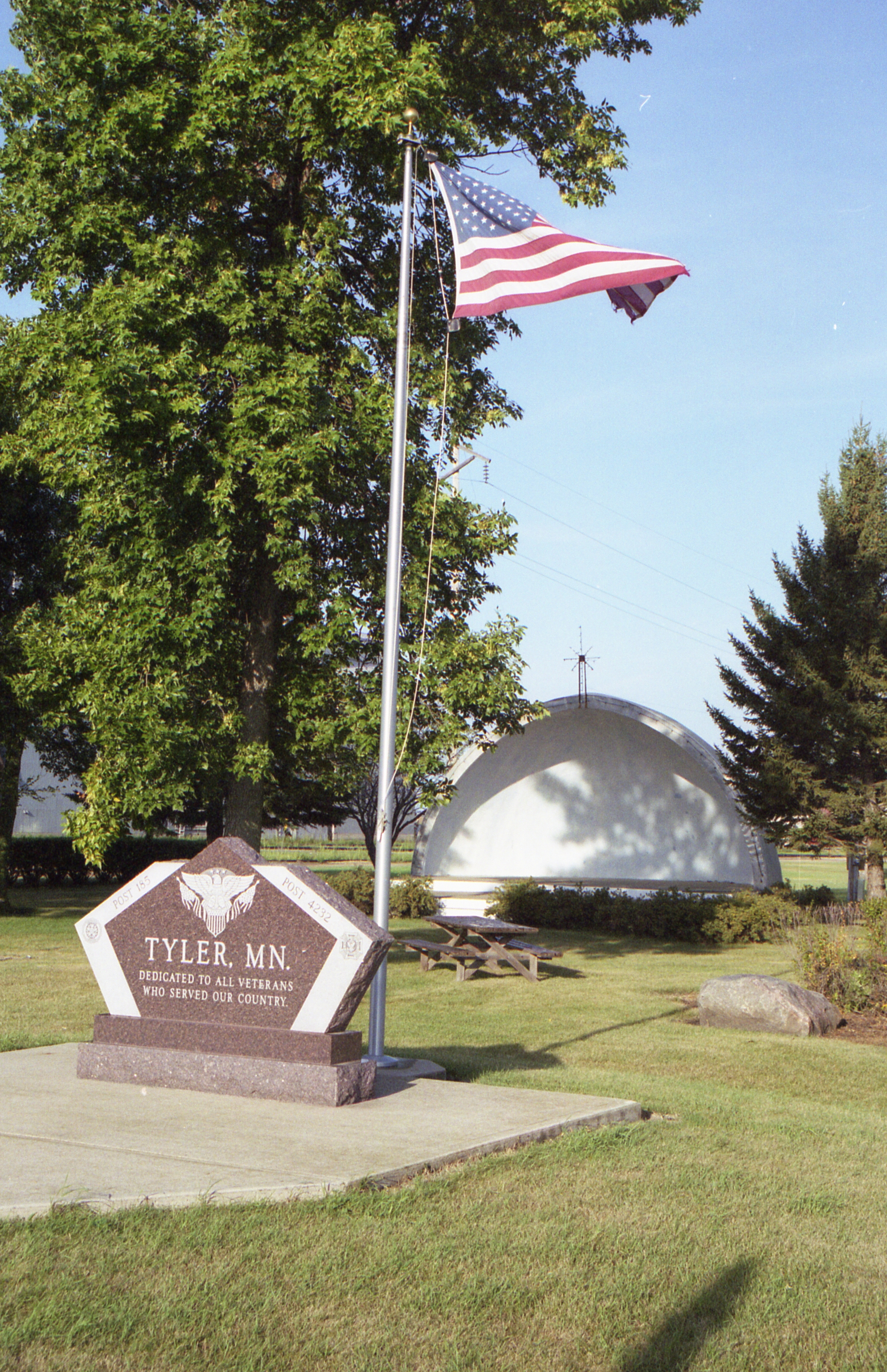 The memorial to all veterans infront of the open-air stage in Tyler, MN